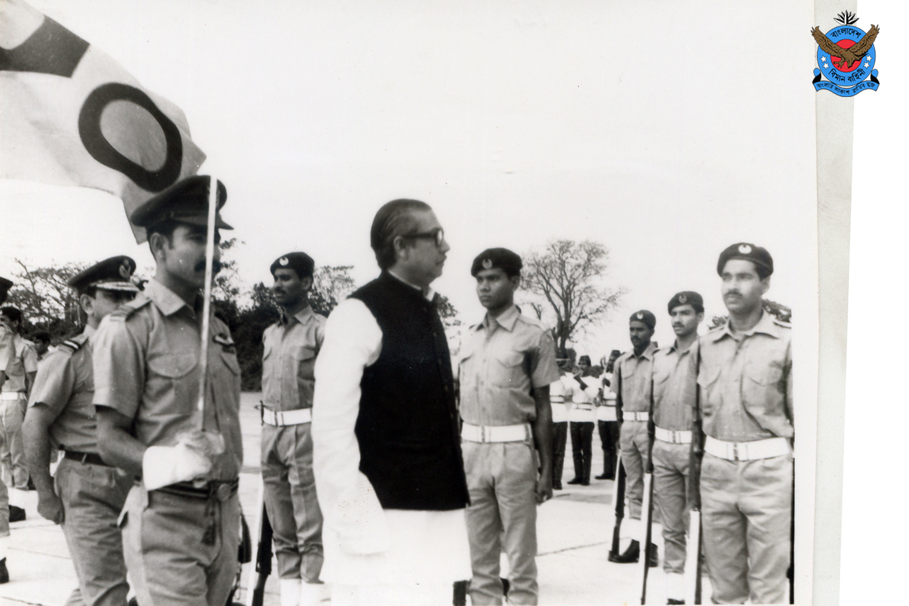 Bangabandhu Sheikh Mujibur Rahman with Bangladesh Air Force personnel.